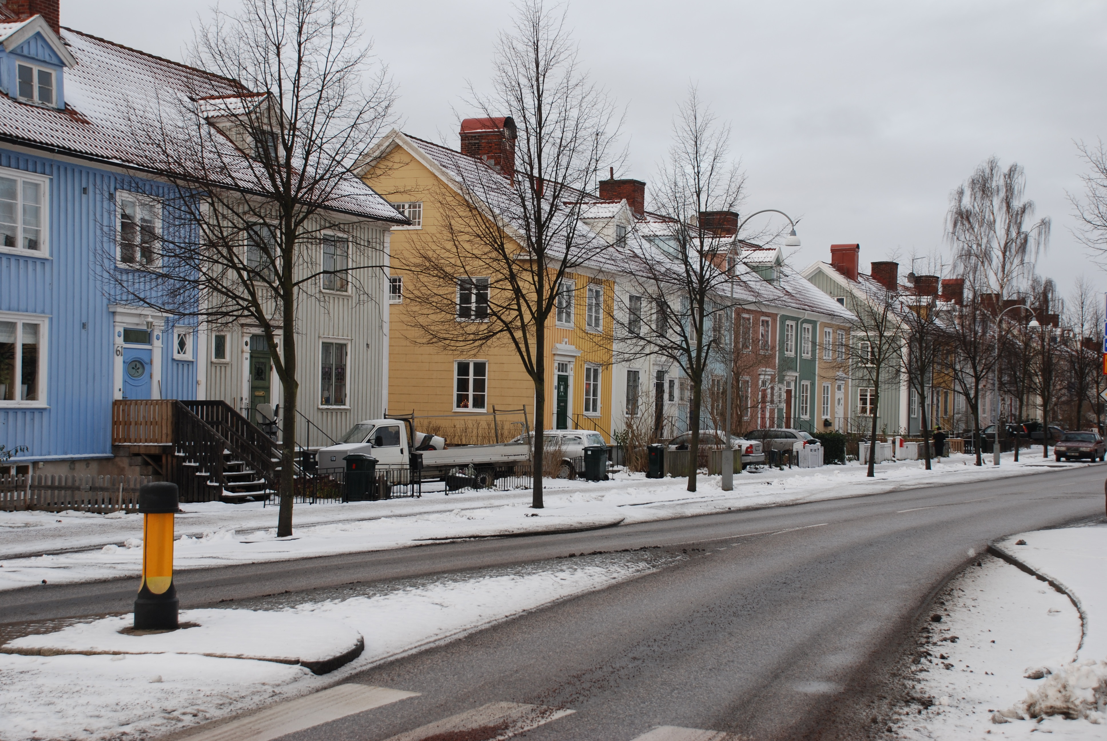 Typical buildings along Sankt Sigfridsgatan in Örgryte, Göteborg.